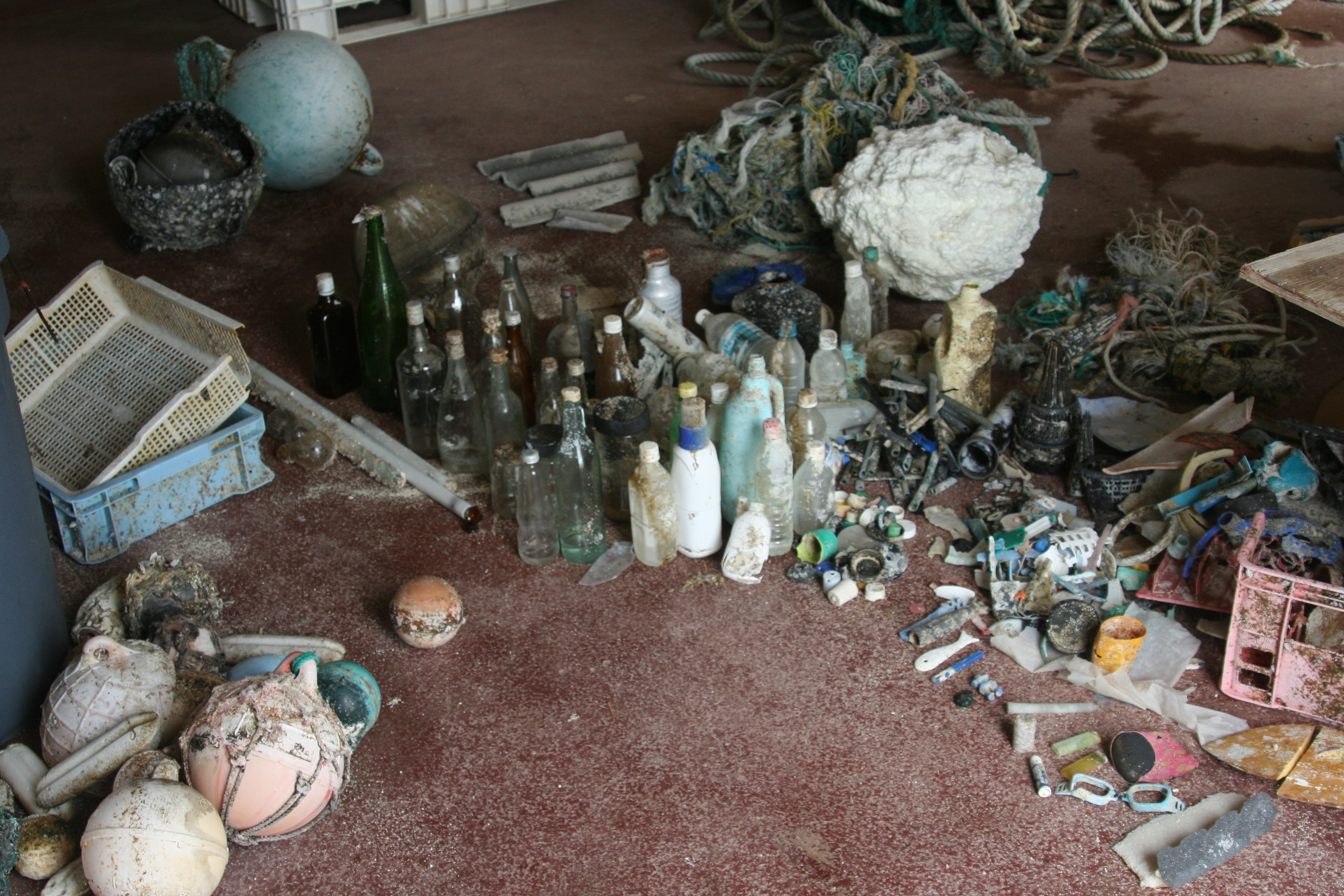 Flotsam collected on beaches on Tern Island in French Frigate Shoals over one month. Items collected were 288 misc plastic pieces, 13 fishing floats, 33 plastic bottles, two toys, 1 lightstick, 34 bottle caps, 1 lighter, 2 balls, 5 shoes, 3 fluorescent bulbs, 3 regular lightbulbs, 19 glass bottles, 1 metal flask, two baskets, 21 pieces of rope, one large 3 foot² net ball and one large piece of styrofoam.